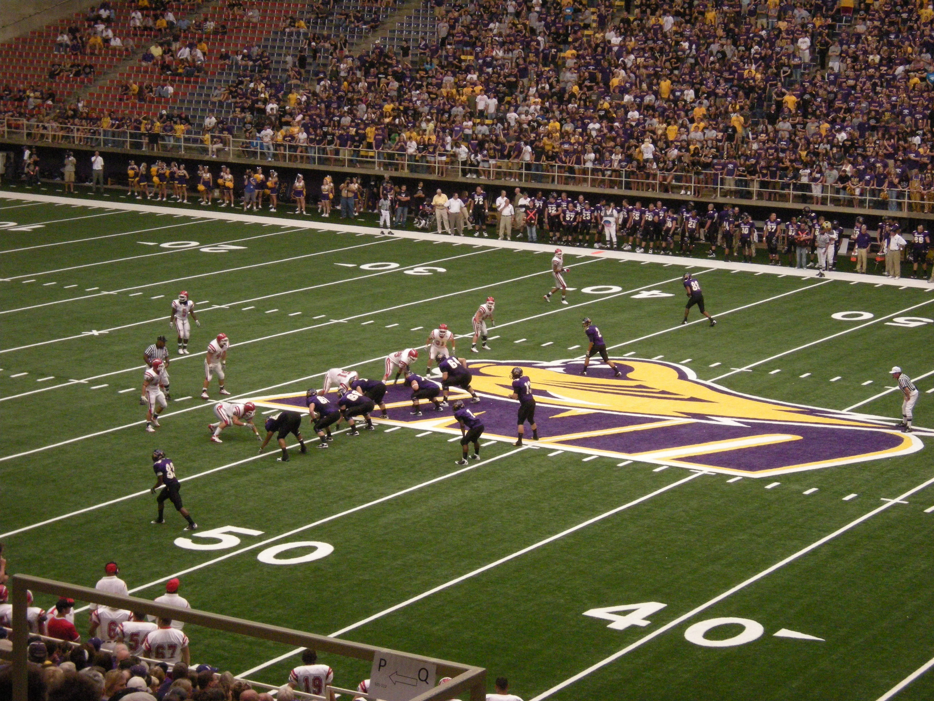 UNI's offense sets up against the St. Francis (PA) Red Flash, Sept 19, 2009